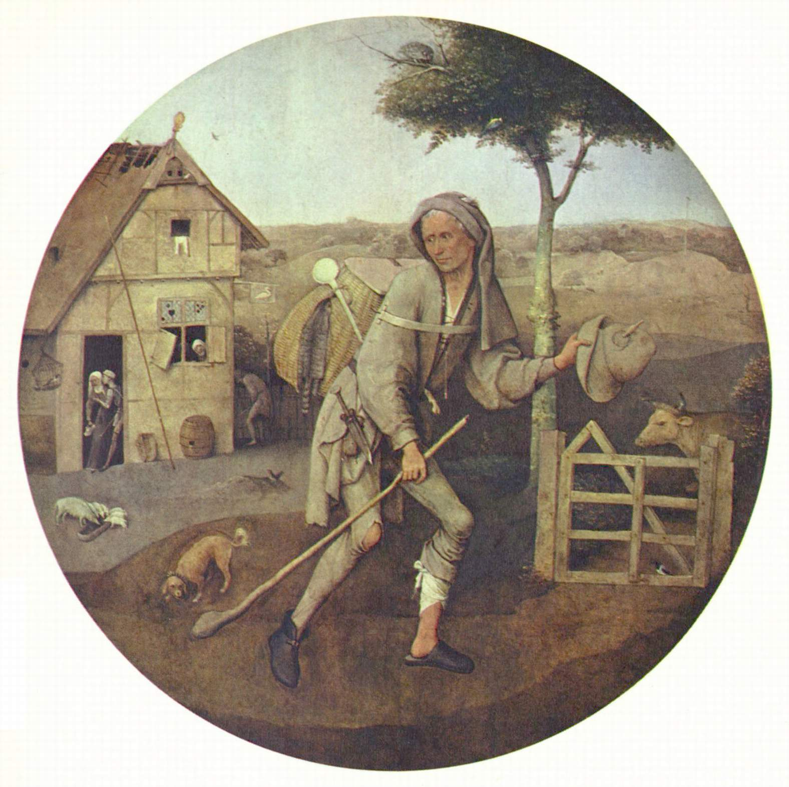 A thin man wearing grey clothes is walking, holding his hat in his left hand. In his right hand he is holding a stick fending off an angry dog. On his back he is carrying a large basket. This type of basket was normally used by peddlers in the 16th century in the Netherlands. To the left an inn (and possibly also a brothel). To the right a path leading into a field where a cow and a magpie seem to watch the man. Above the man, in a tree, an owl is gazing at a great tit. In the background a gallows stands on a hill.